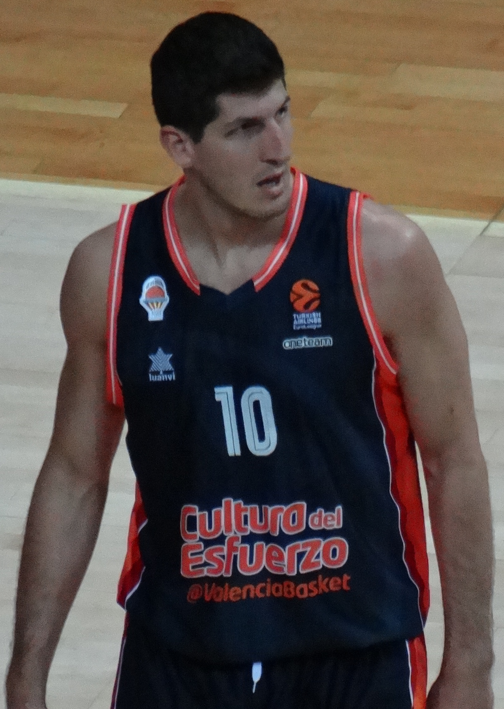 Damjan Rudež 10 Valencia Basket 20171102